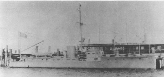 Patrol vessel USS Zenith (SP-61) during World War I